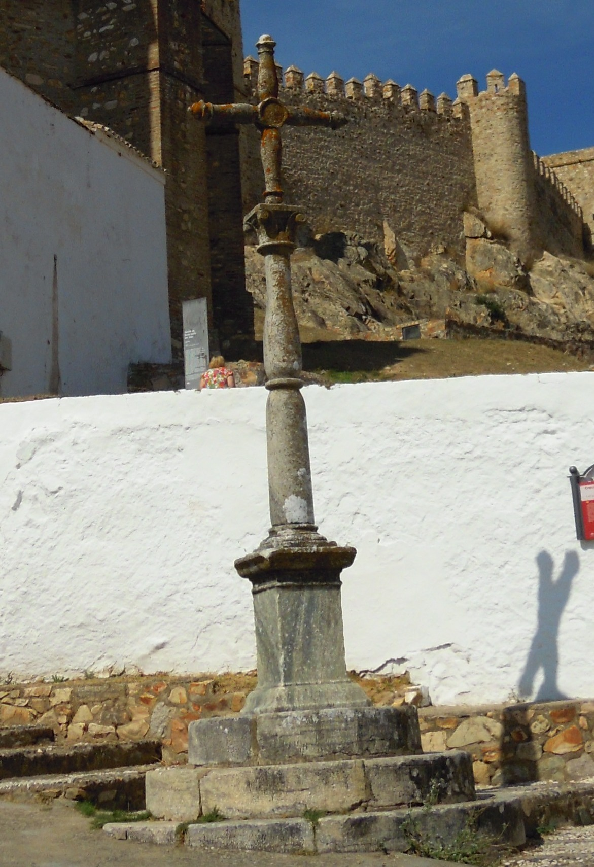 A photograph of the 16th Century cross at Santa Olalla del Cala, a marker cross on the Pilgrimage route of silver to Santiago de Compostela